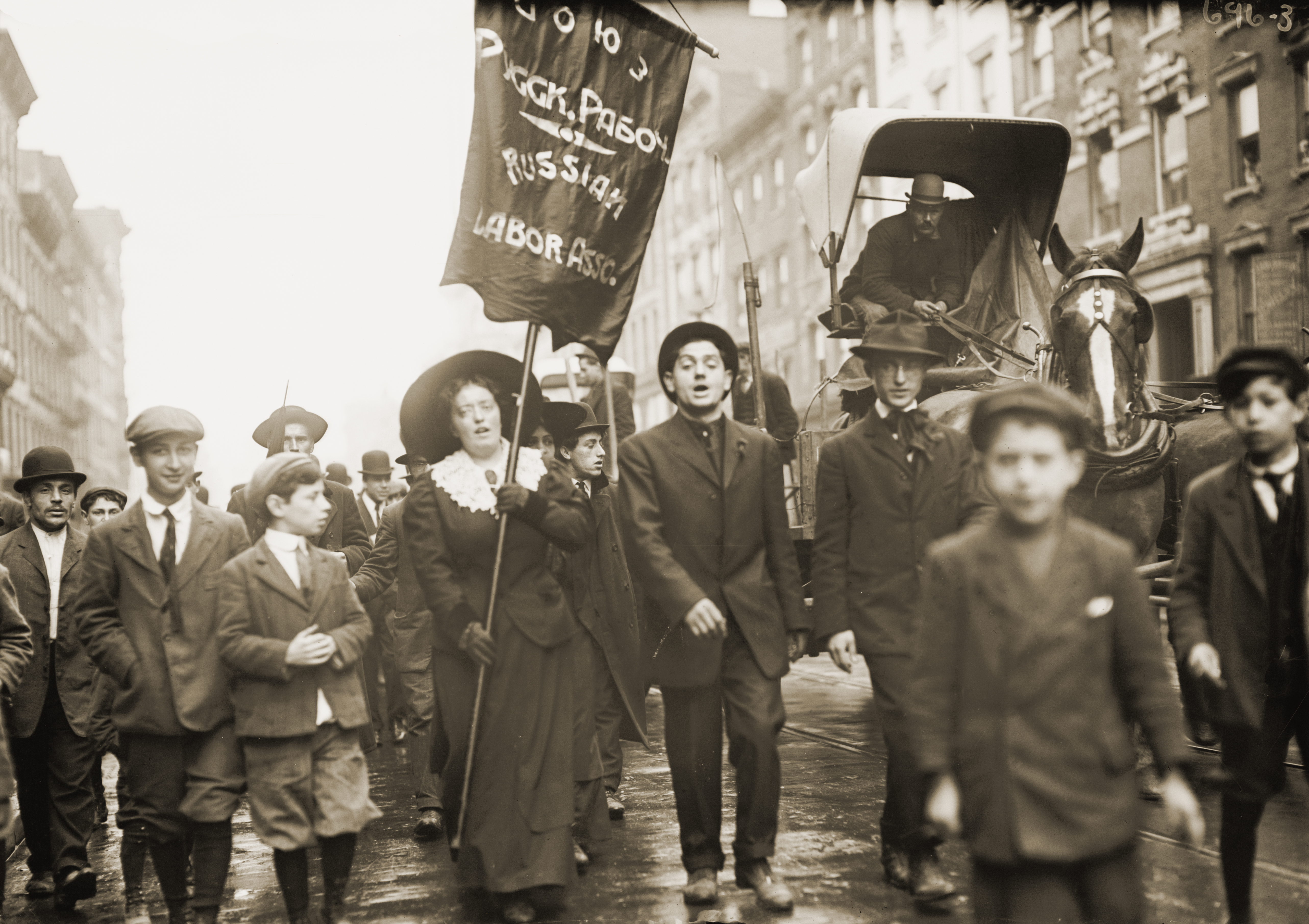 Labor Day parade, marchers of Russian Labor Assn., New York.